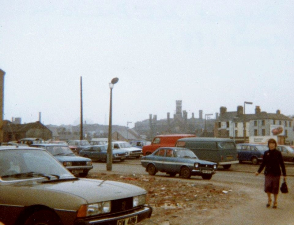 Photo of Donegall Pass Belfast prior to its renovation